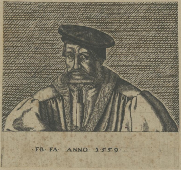 Franz Köckritz, called Faber (1497-1565). Chalcography by Nicolas II de Larmessin (1632-1694). Franz Köckritz was writer of the town council in Breslau. He was also a poet and a historiograph.